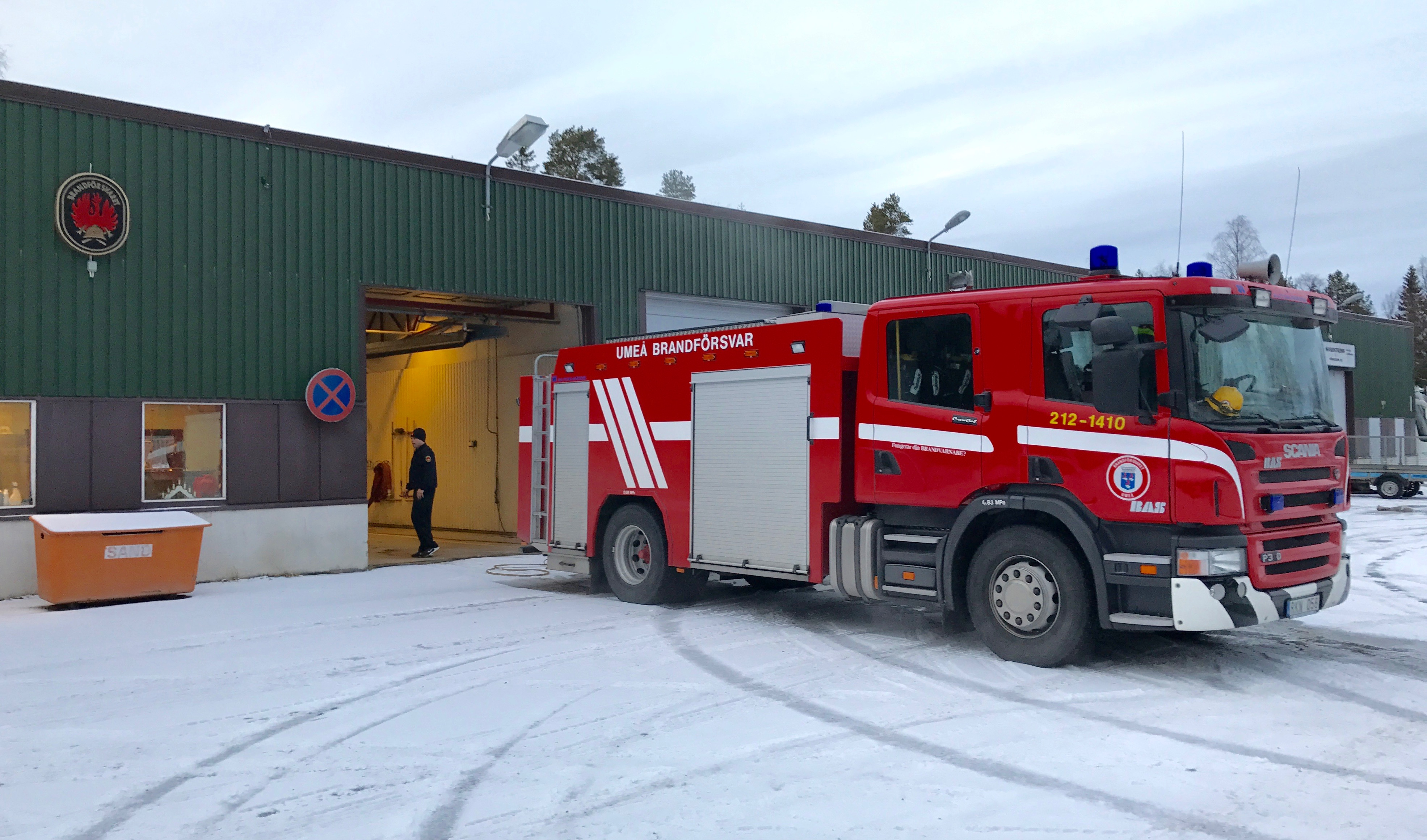 Fire truck at Hörnefors fire station, Umeå, Sweden.